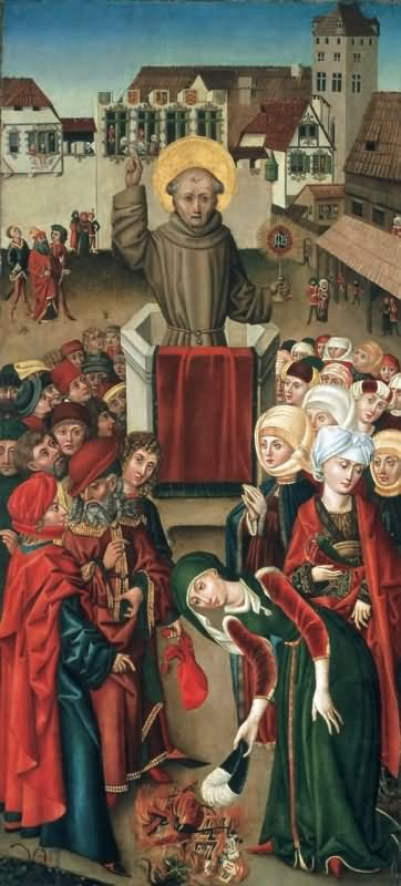 The painting illustrates St. John of Capistrano (It., San Giovanni da Capestrano) denouncing frivolous possessions and activities, in preparation for a bonfire of vanities.